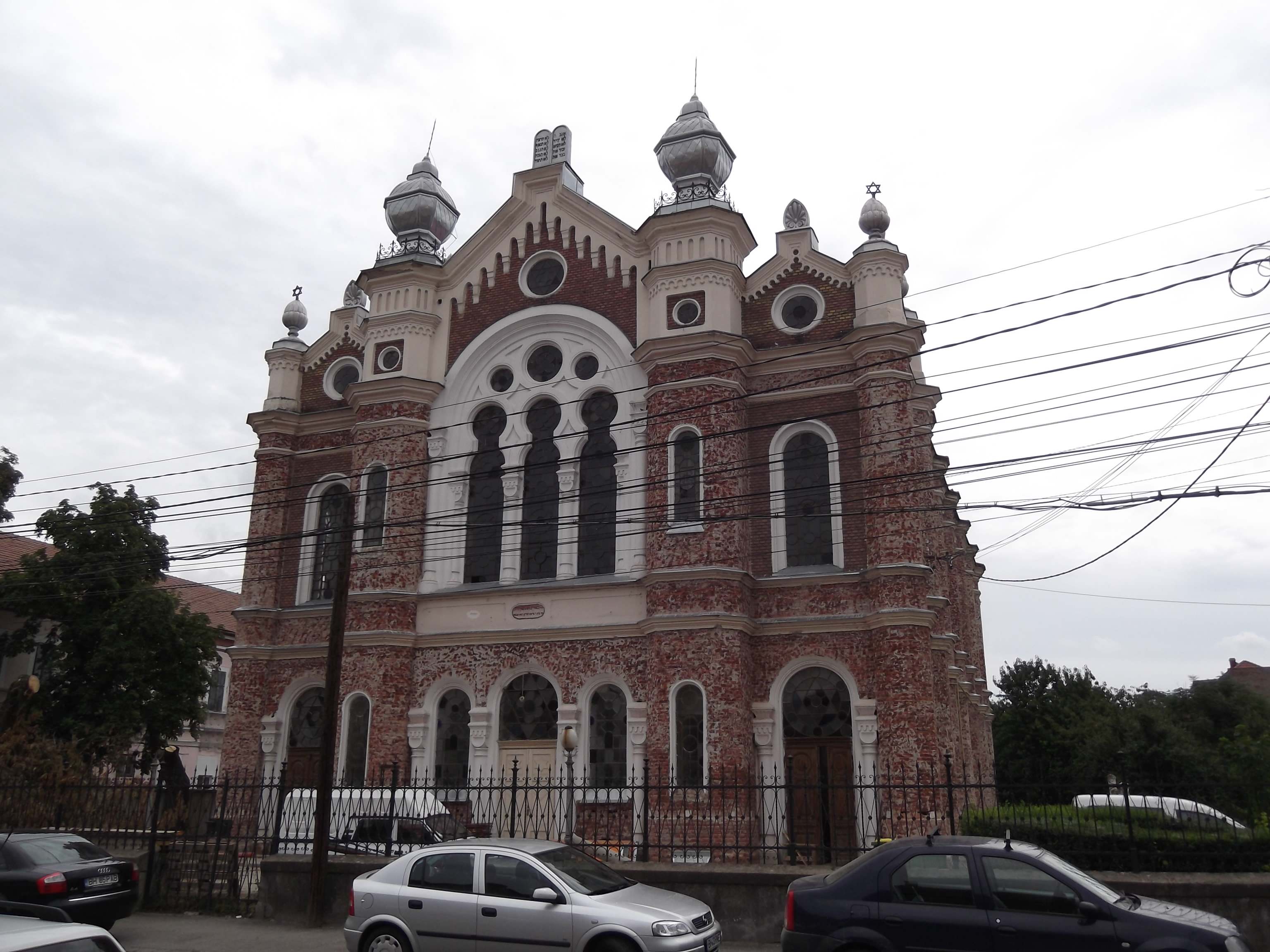 View of the facade of the Orthodox synagogue in Oradea